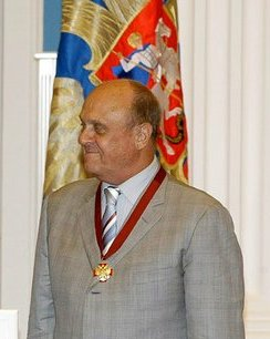 Moscow. Russian film director Vladimir Menshov.